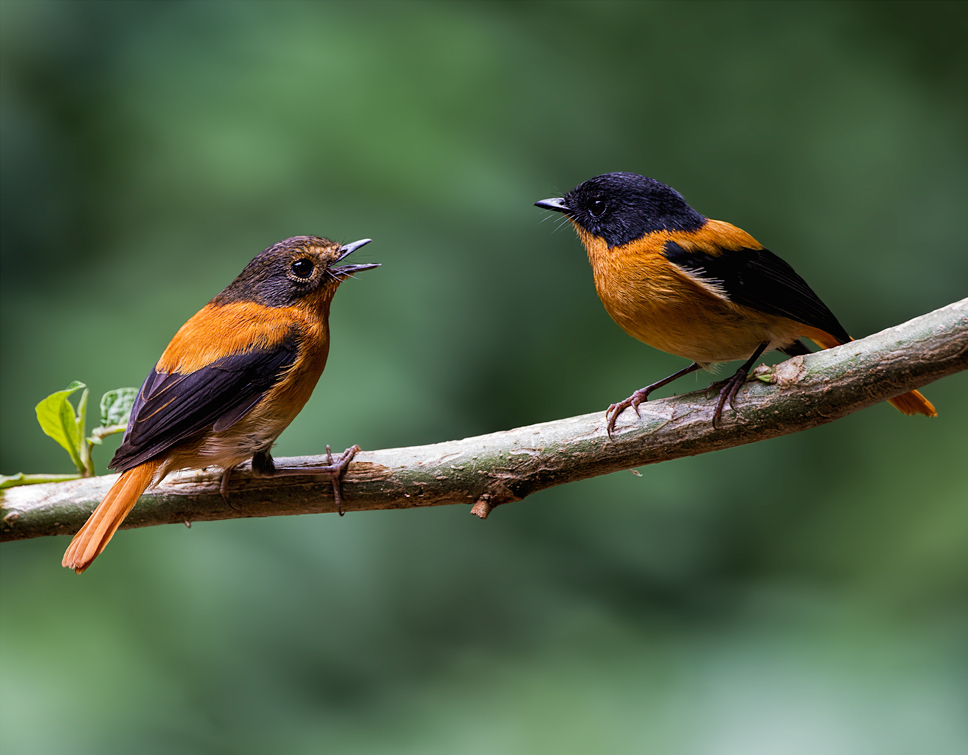 A Pair of Black and Orange Flycatcher by Antony Grossy